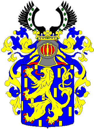 Arms of the House of Nassau